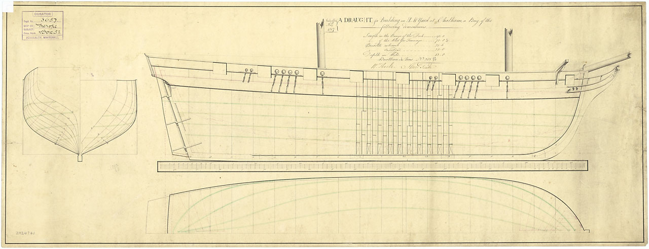 MEROPE 1808 lines